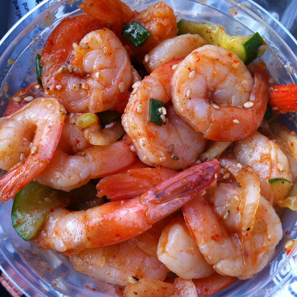 shrimp poke